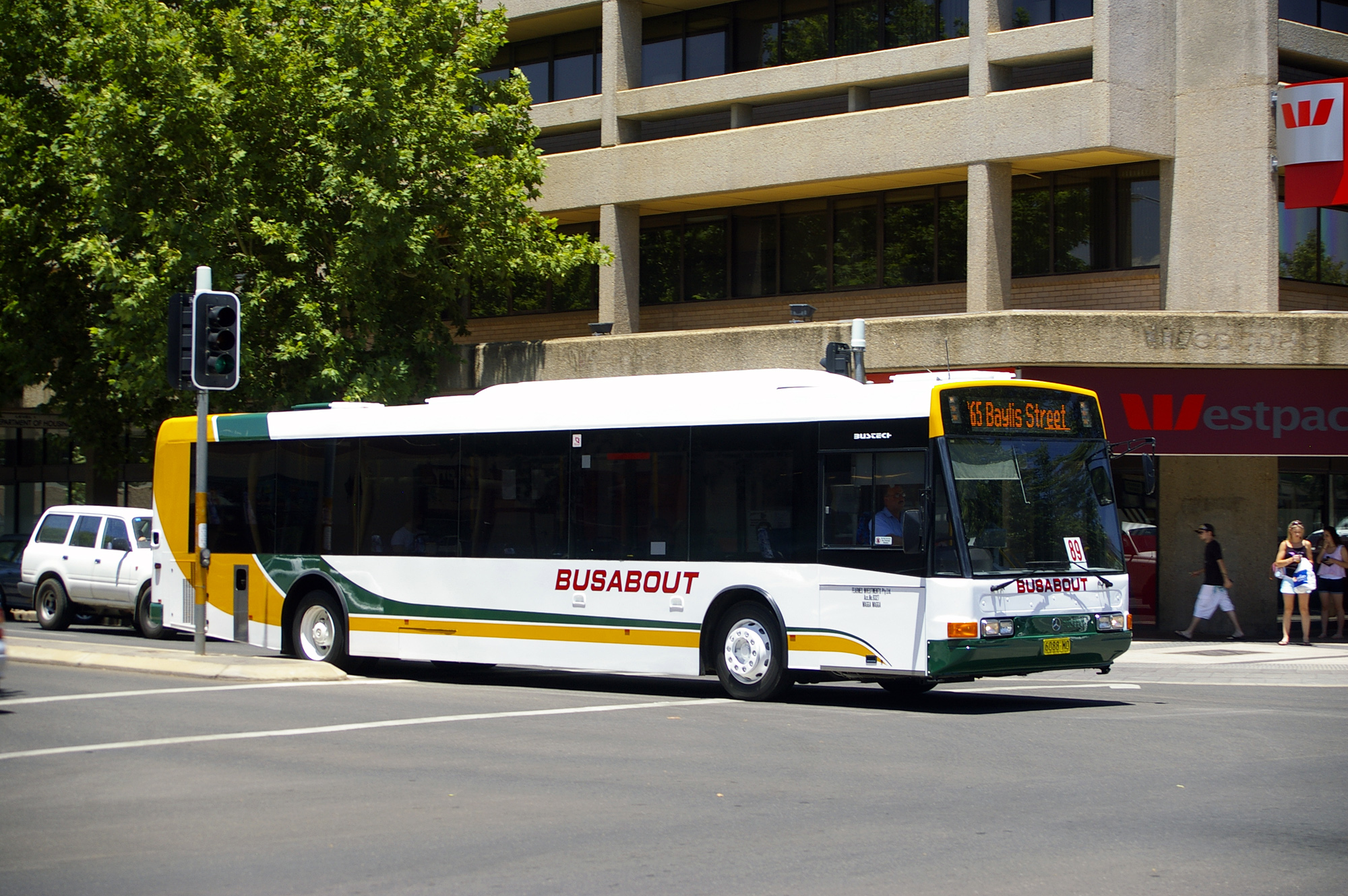 Bustech bodied Mercedes-Benz O405NH with regional registration (6088 MO, built 2000) servicing route 965 (Forest Hill to Wagga CBD) operated by Busabout Wagga Wagga, Australia.